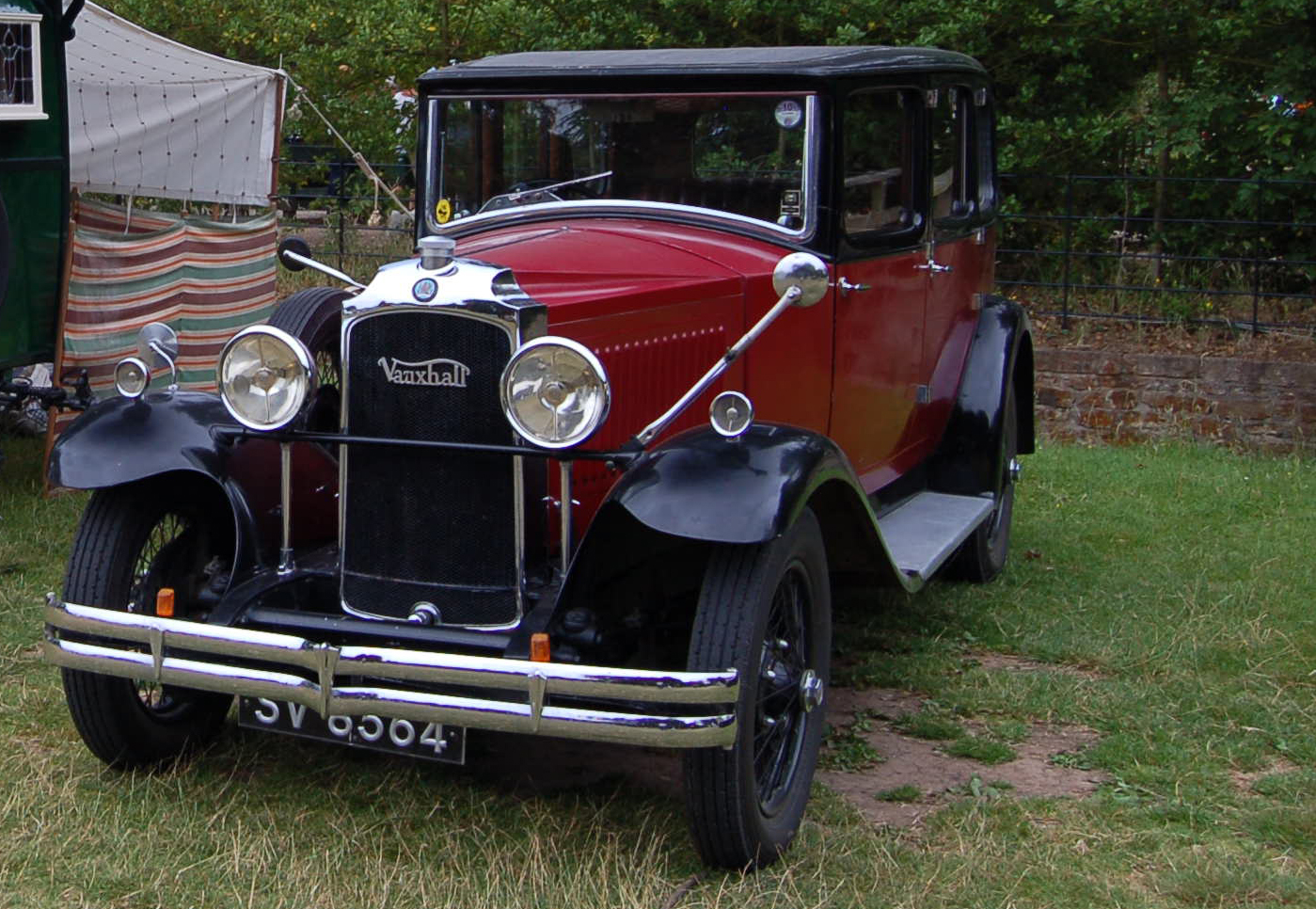 Vauxhall 20-60 T-type 1929 and contemporary caravan (DVLA) manufactured 1929, 2916 ccNewby Hall Historic Car Rally 2013Cropped